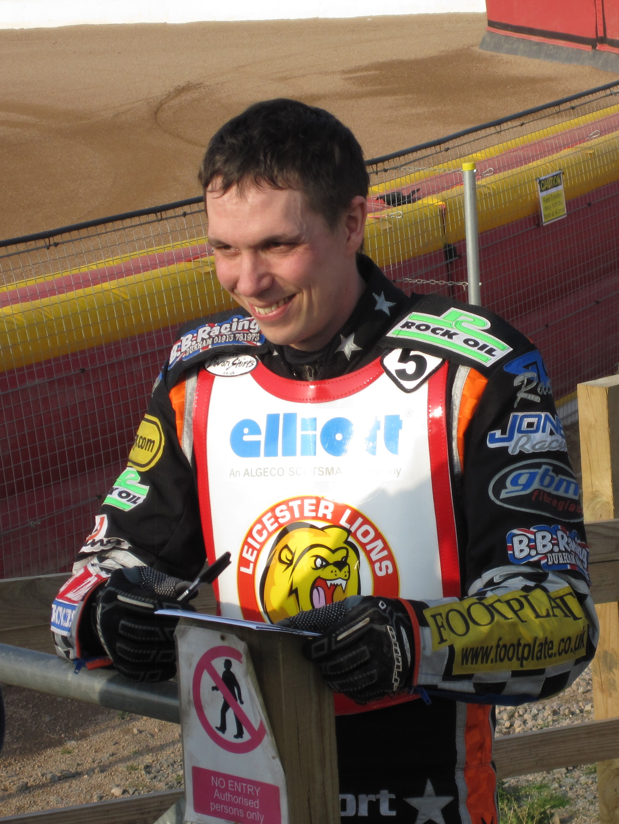 Magnus Karlsson at the Press & Practice event, Leicester Speedway